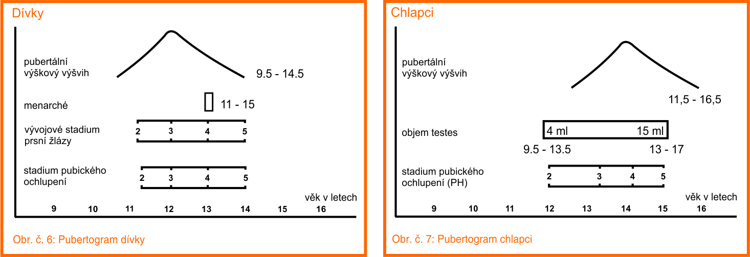 Pubertogram - tabulka